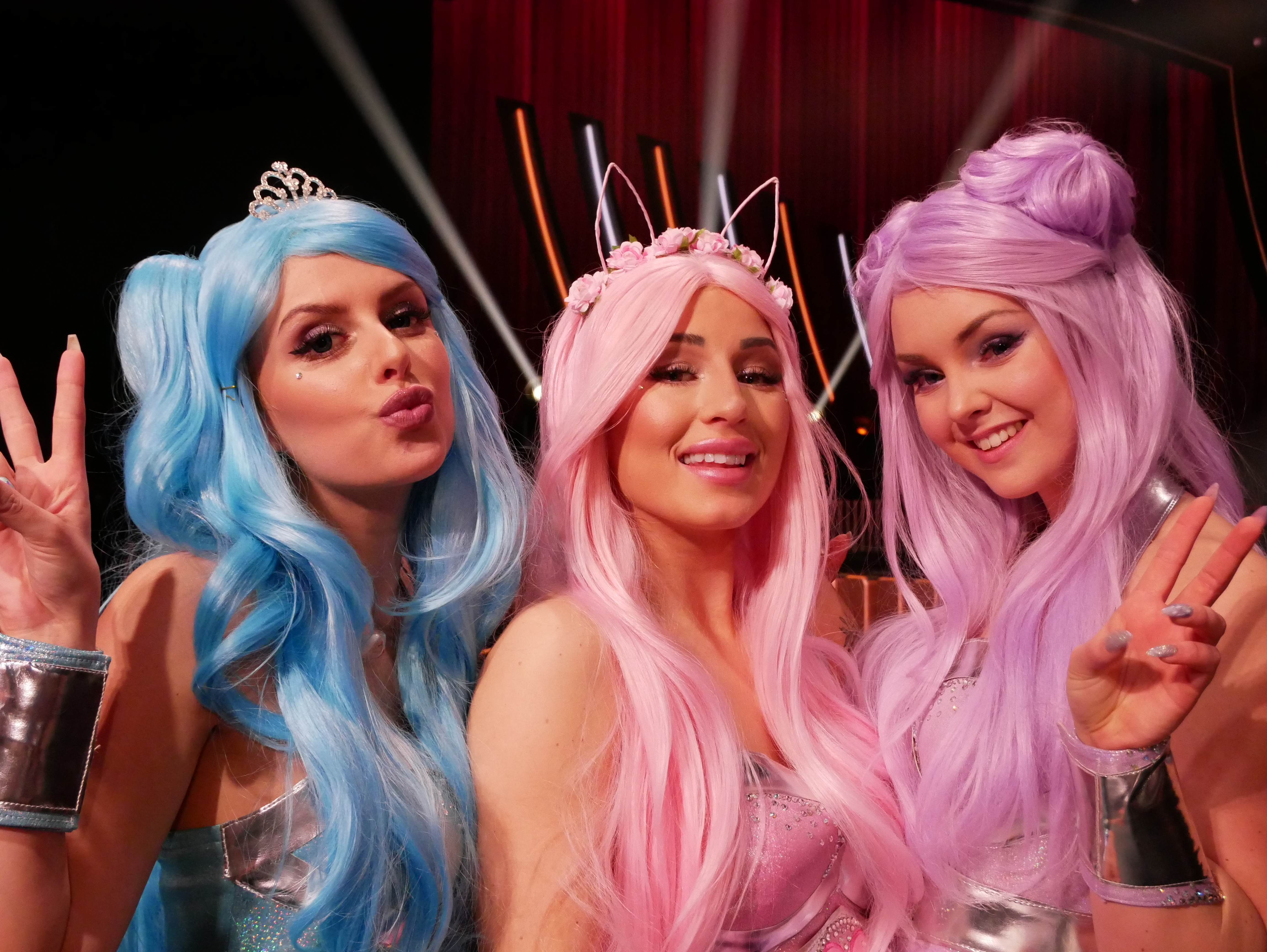 Melodifestivalen 2019, part contest 3, Leksand, Sweden